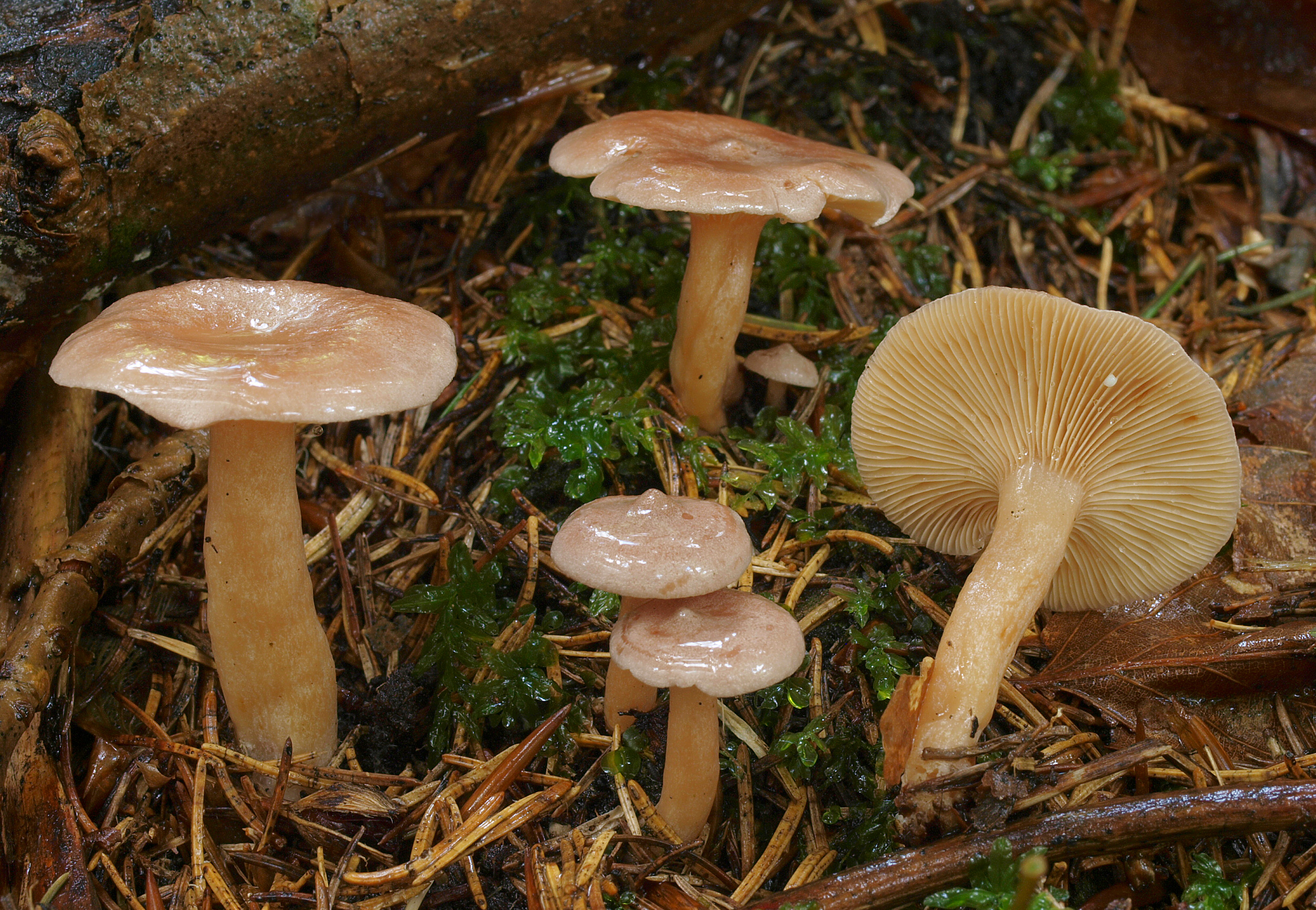 Coconut Milkcap (Lactarius glyciosmus)